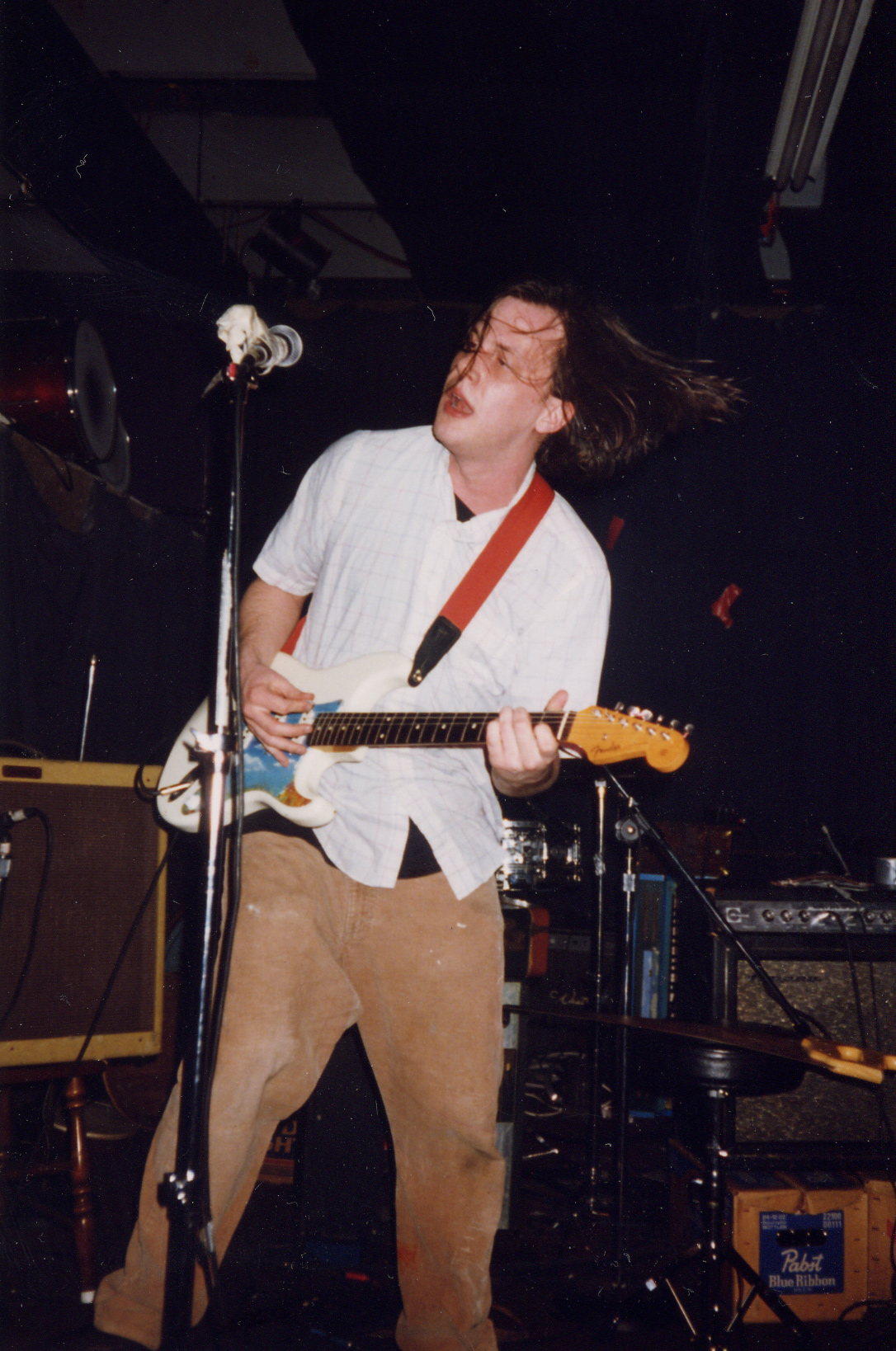 Jeff Mangum playing at the Atomic in Athens, Ga Author: "The shows were probably 1997-1998" Gig sites: [1] [2]